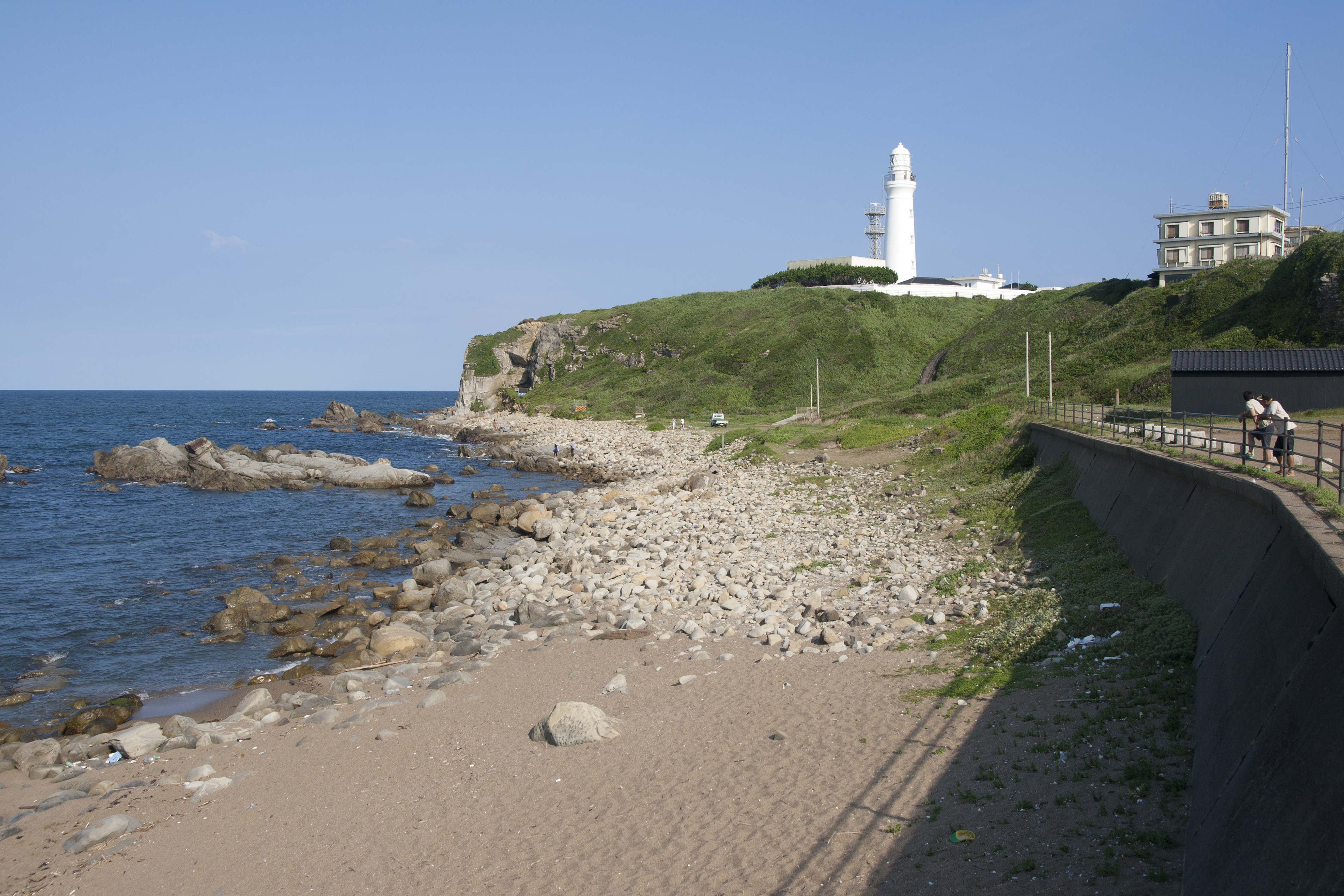 Cape Inubō, Choshi City, Chiba Prefecture, Japan.